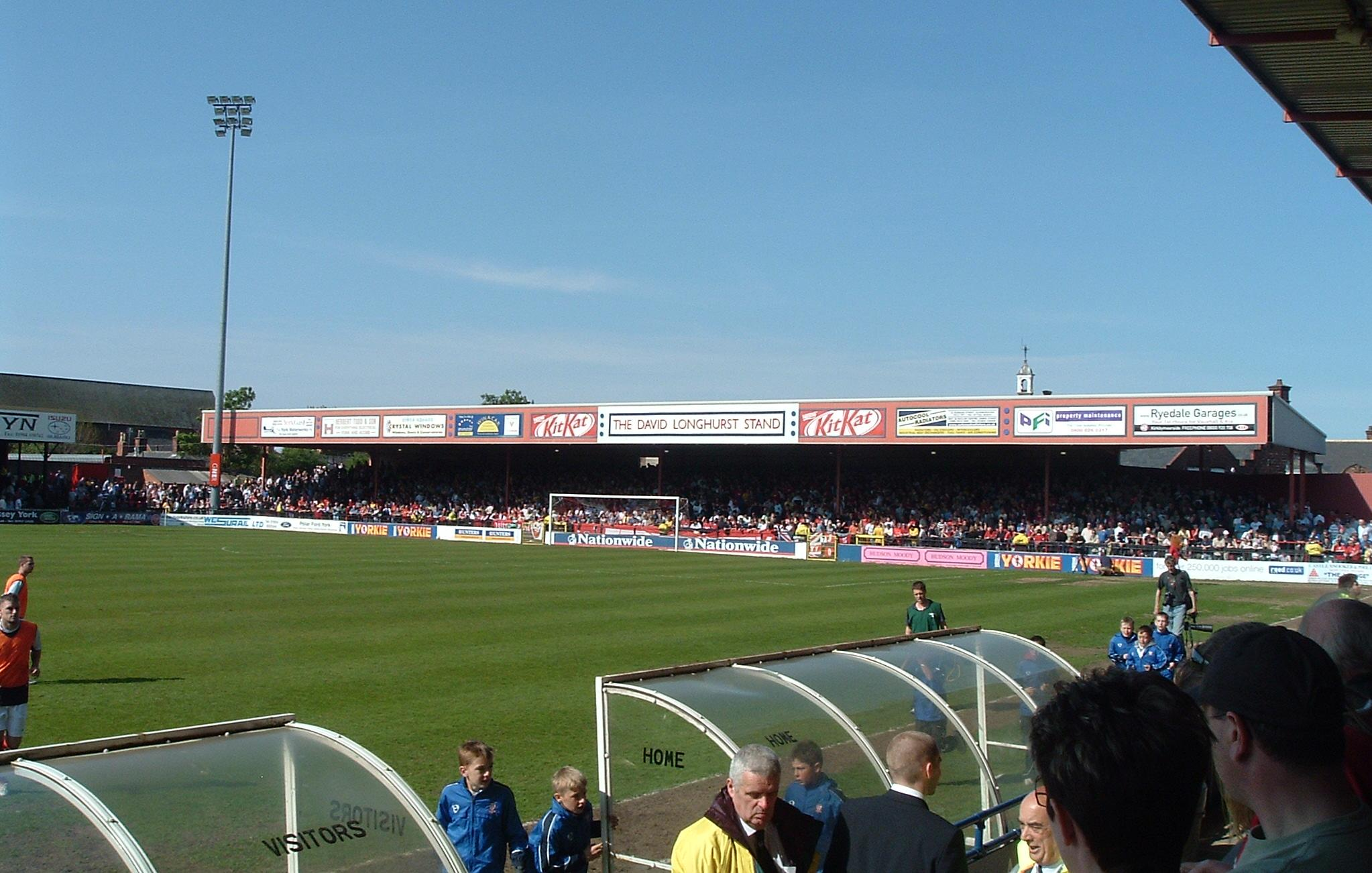 KitKat Crescent in 2007.